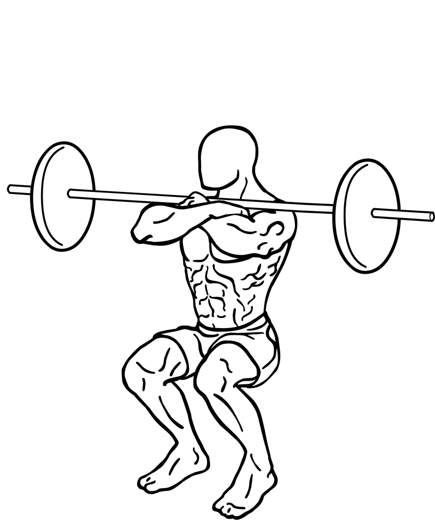 an exercise of thigh